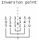 Inversion Point